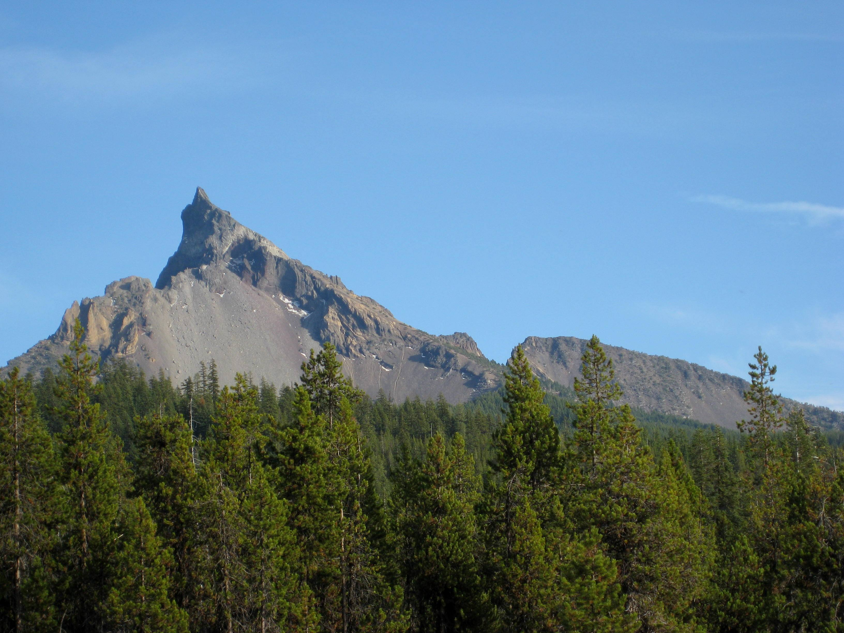 Mount Thielsen in the southern Oregon Cascades from near Diamond Lake